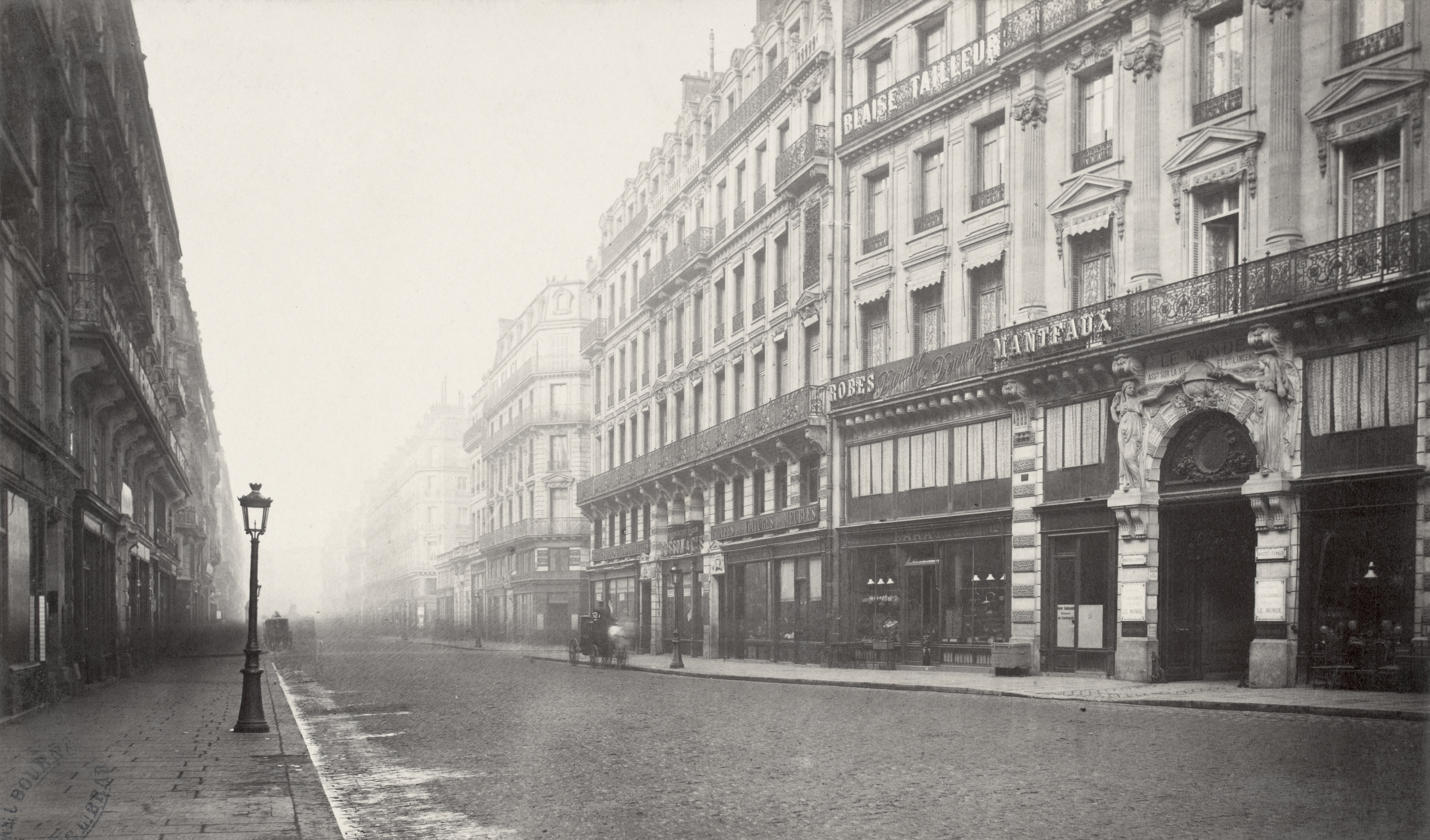 Looking along street with lamppost on path on left, shop front on right advertising dresses and coats.